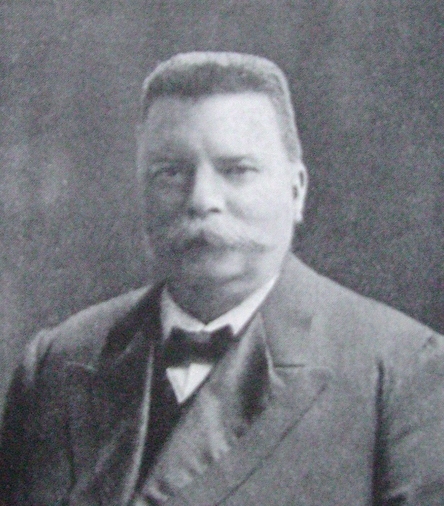 Picture of Sixten von Friesen, Swedish politician